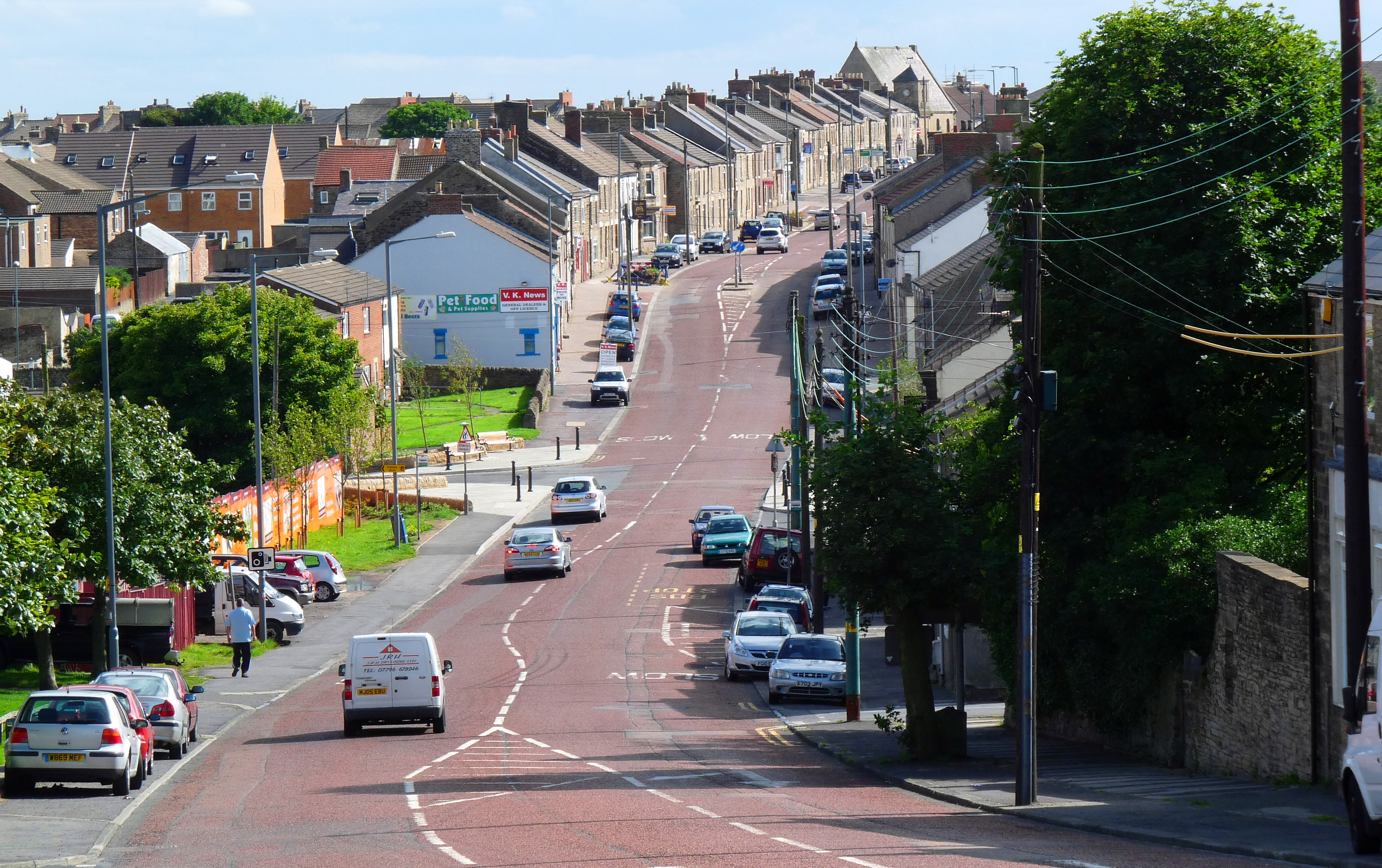 Looking South down Tow Law High Street (A68)